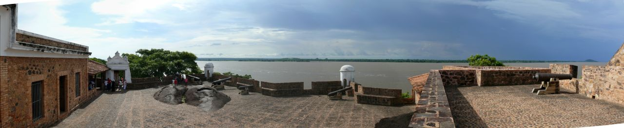 Spanish colonial era Guayana Fortress. On the Orinoco River, Delta Amacuro, Venezuela.